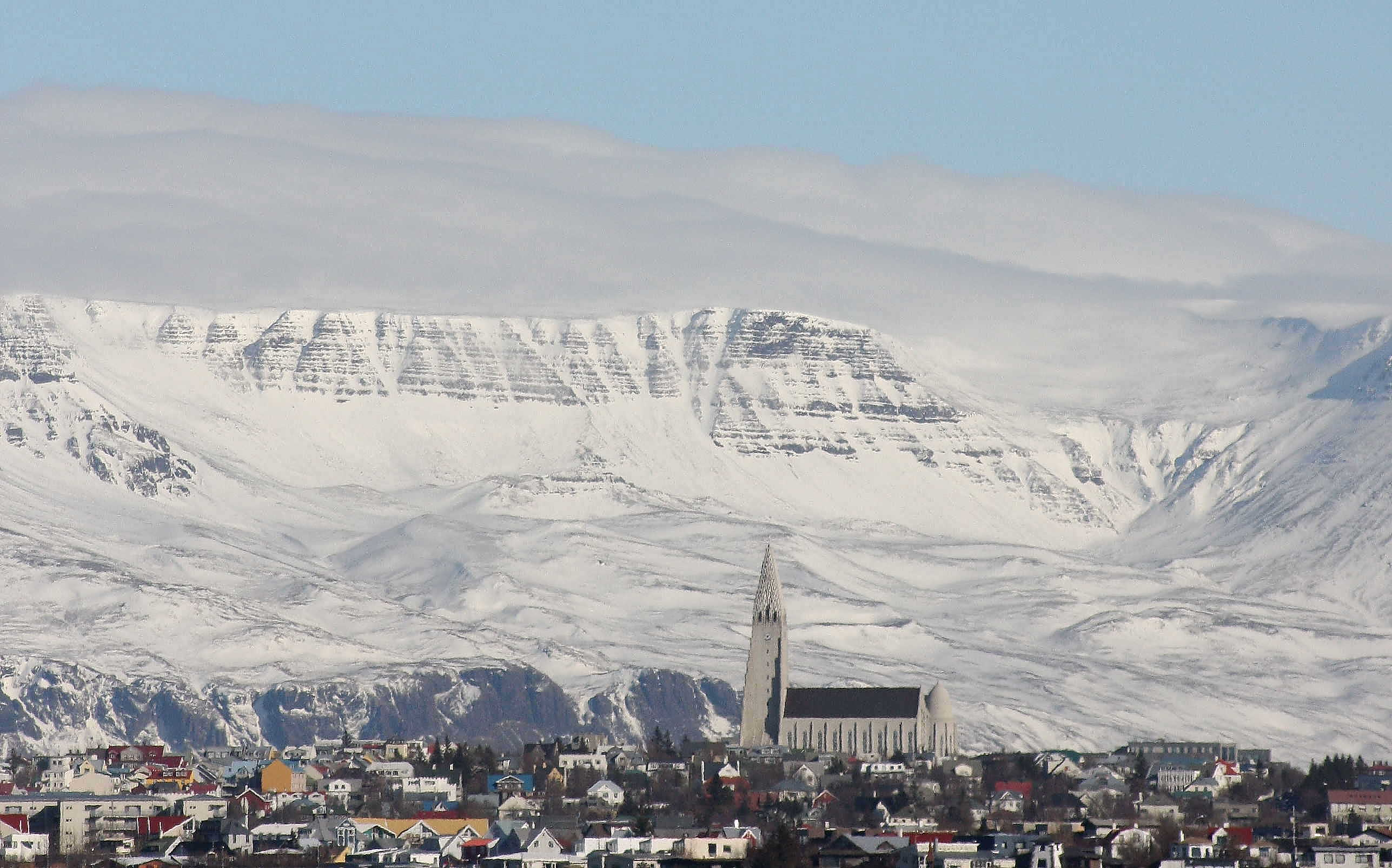 Over the top